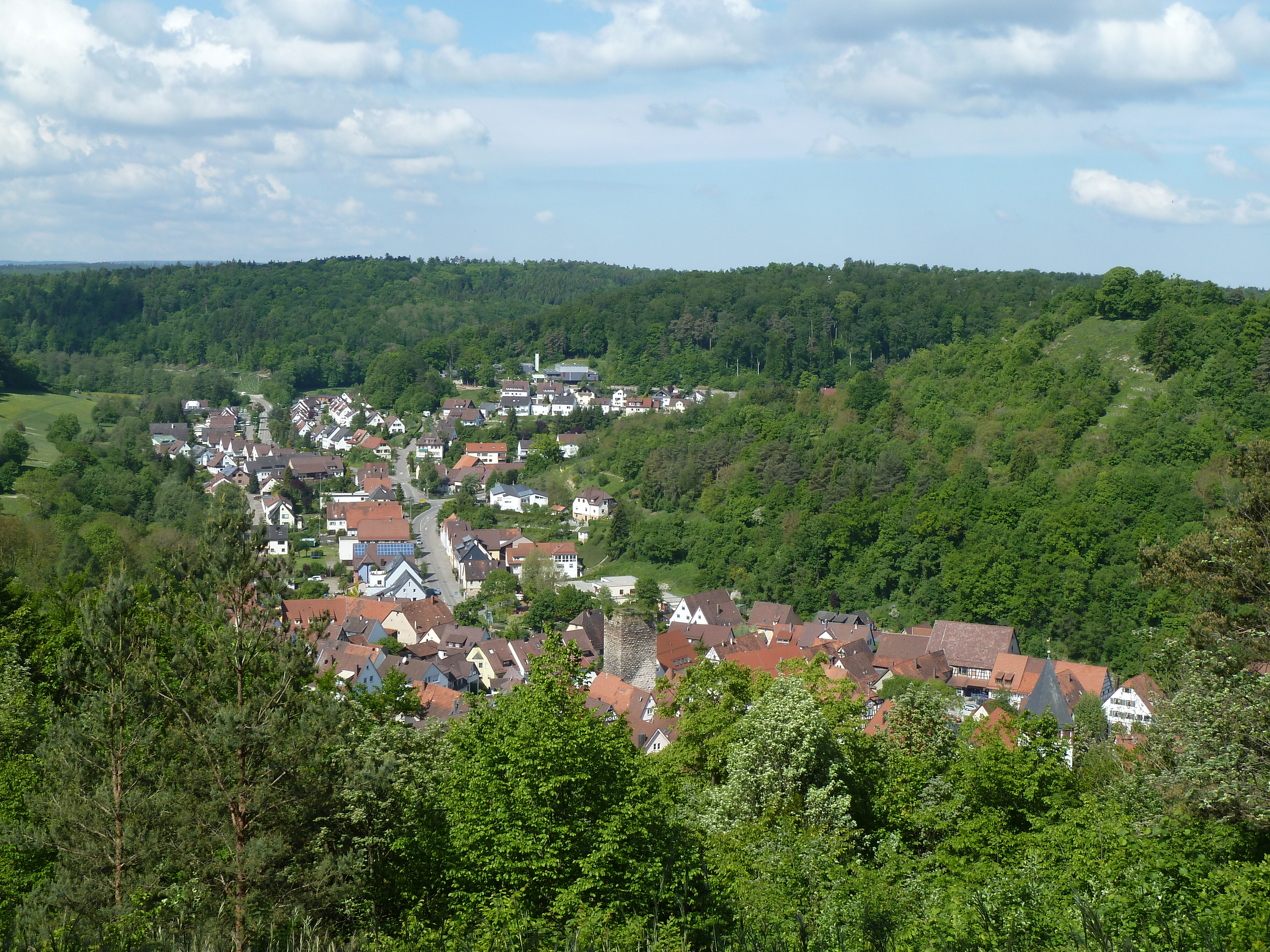 Look over Mönsheim